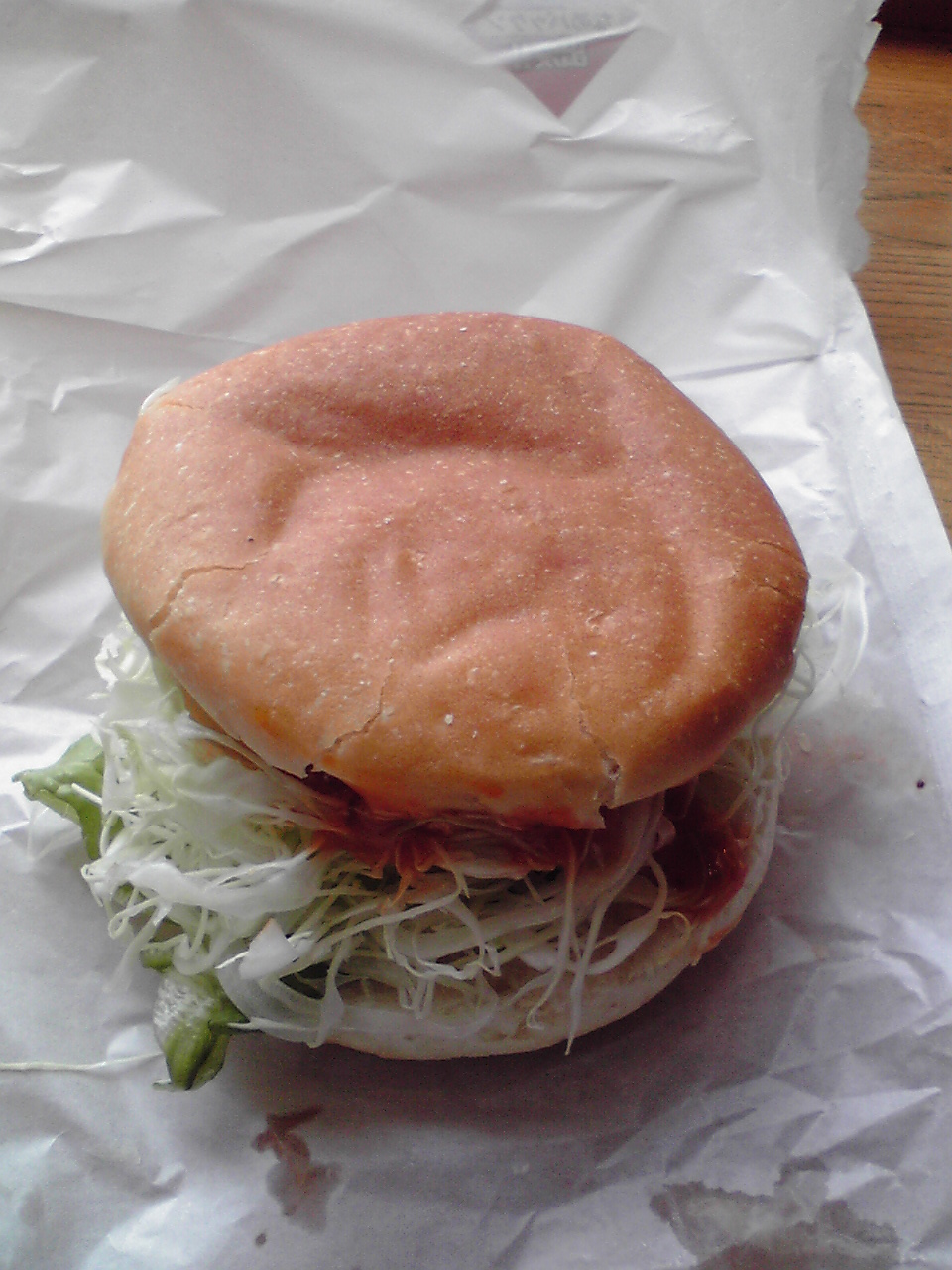 Special Hamburger named "Namepakkun".